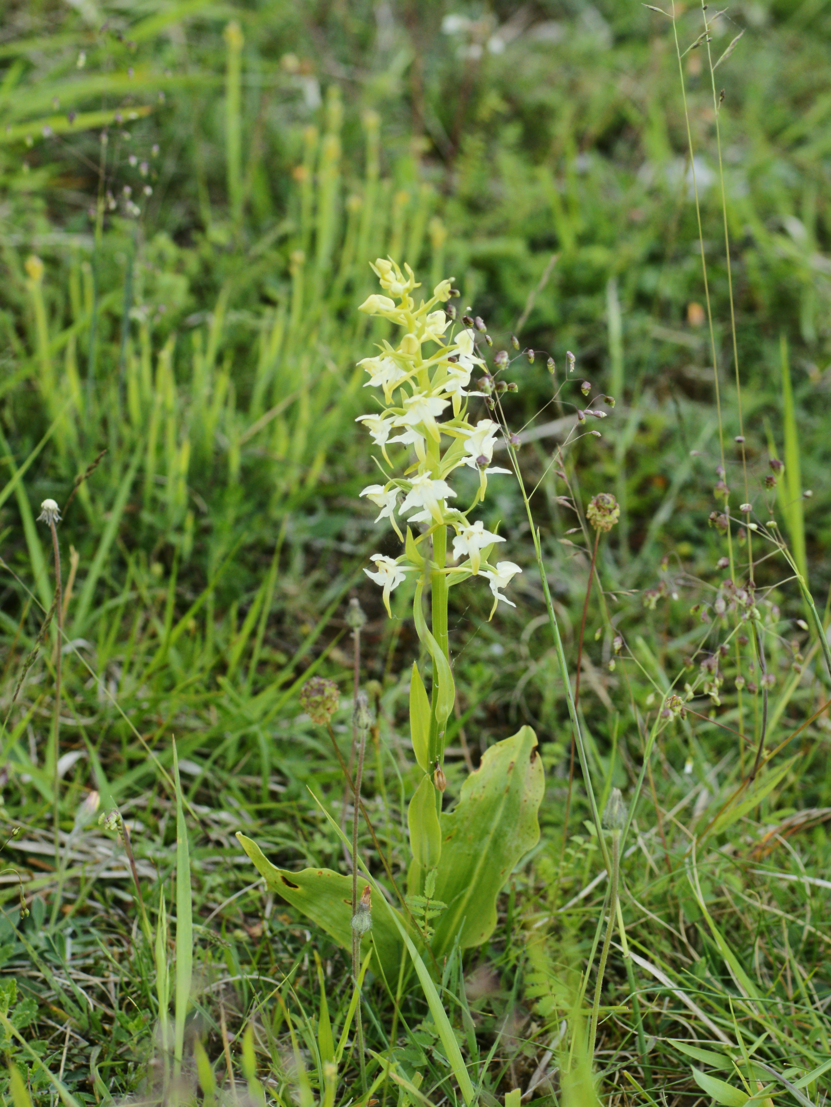 Lesser Butterfly-orchid.